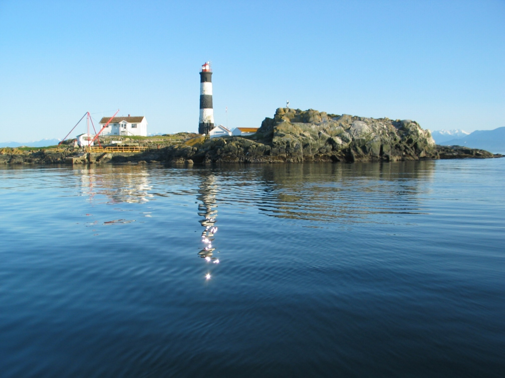 Race Rocks Marine Protected Area